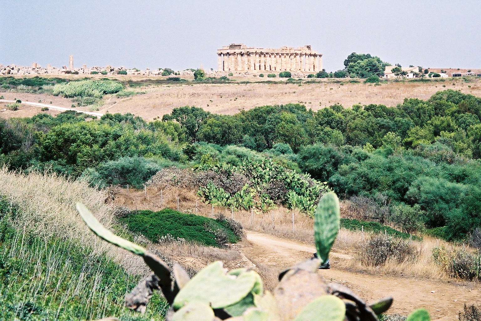 Selinunte (Sicily): View from the acropolis to the east hill